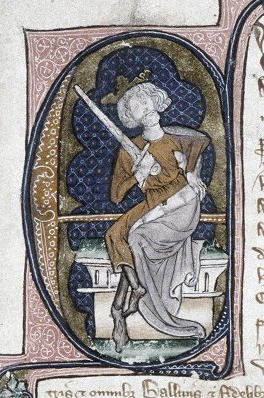 Edward I